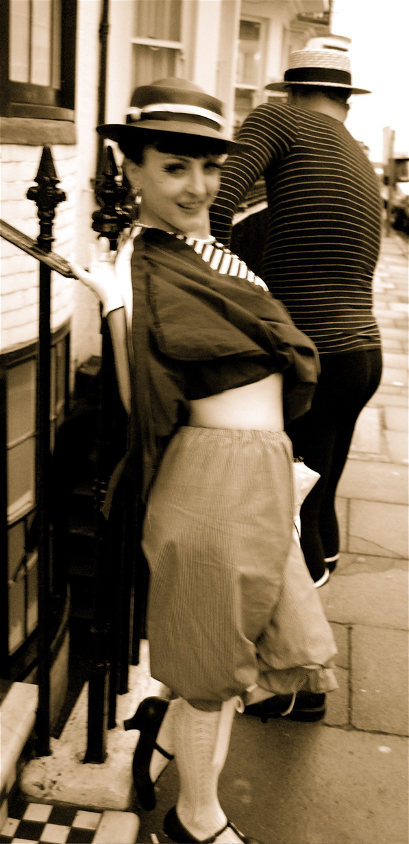 Contemporary Bloomers